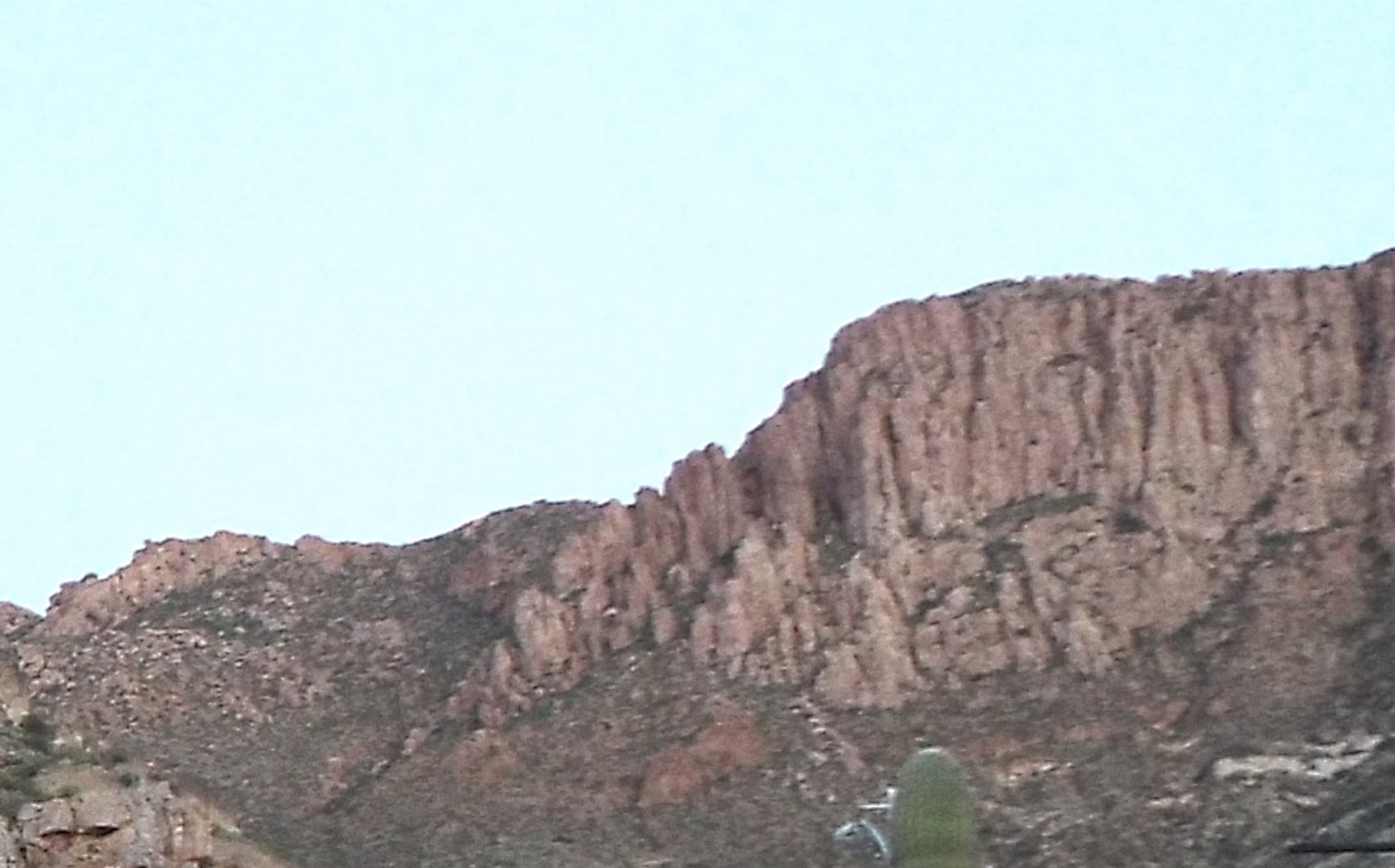 Superior, Arizona-Apache Leap Mountain